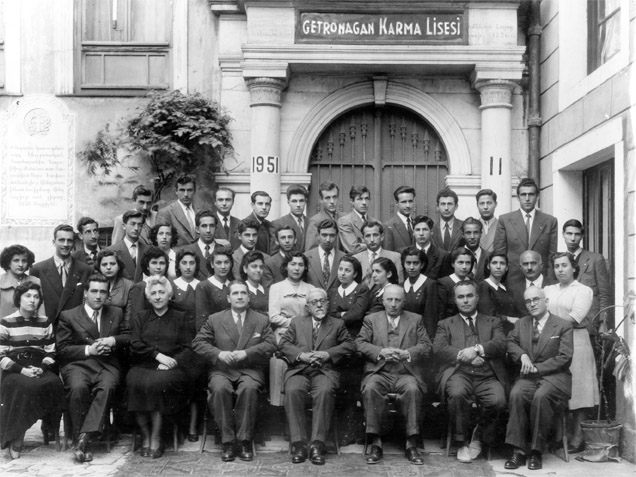 Կեդրոնական վարժարանը 1951-ին